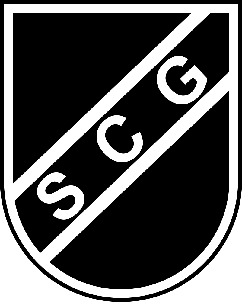 Logo of SC Graudenz